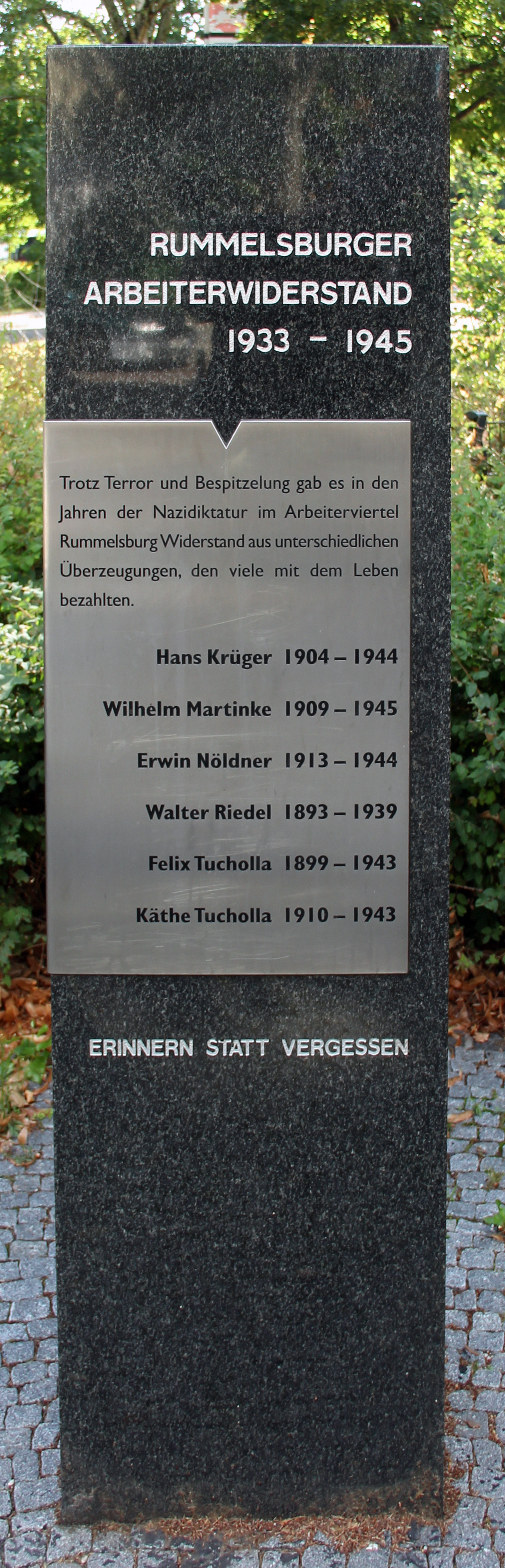 Memorial stone, Hans Krüger, Wilhelm Martinke, Erwin Nöldner, Walter Riedel, Felix Tucholla and Käthe Tucholla, Nöldnerplatz, Berlin-Rummelsburg, Germany